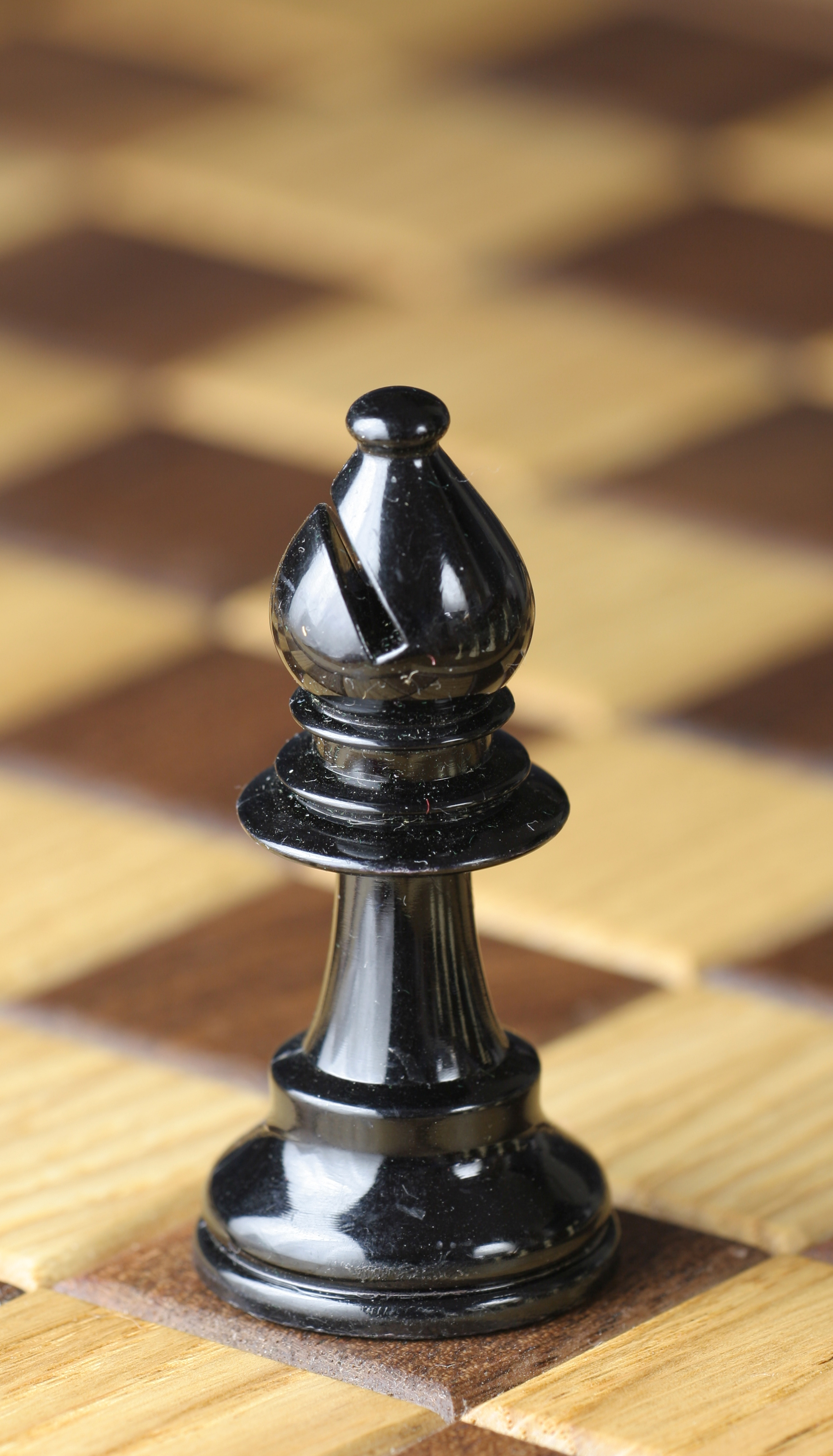 Chess piece - Black bishop, Staunton design